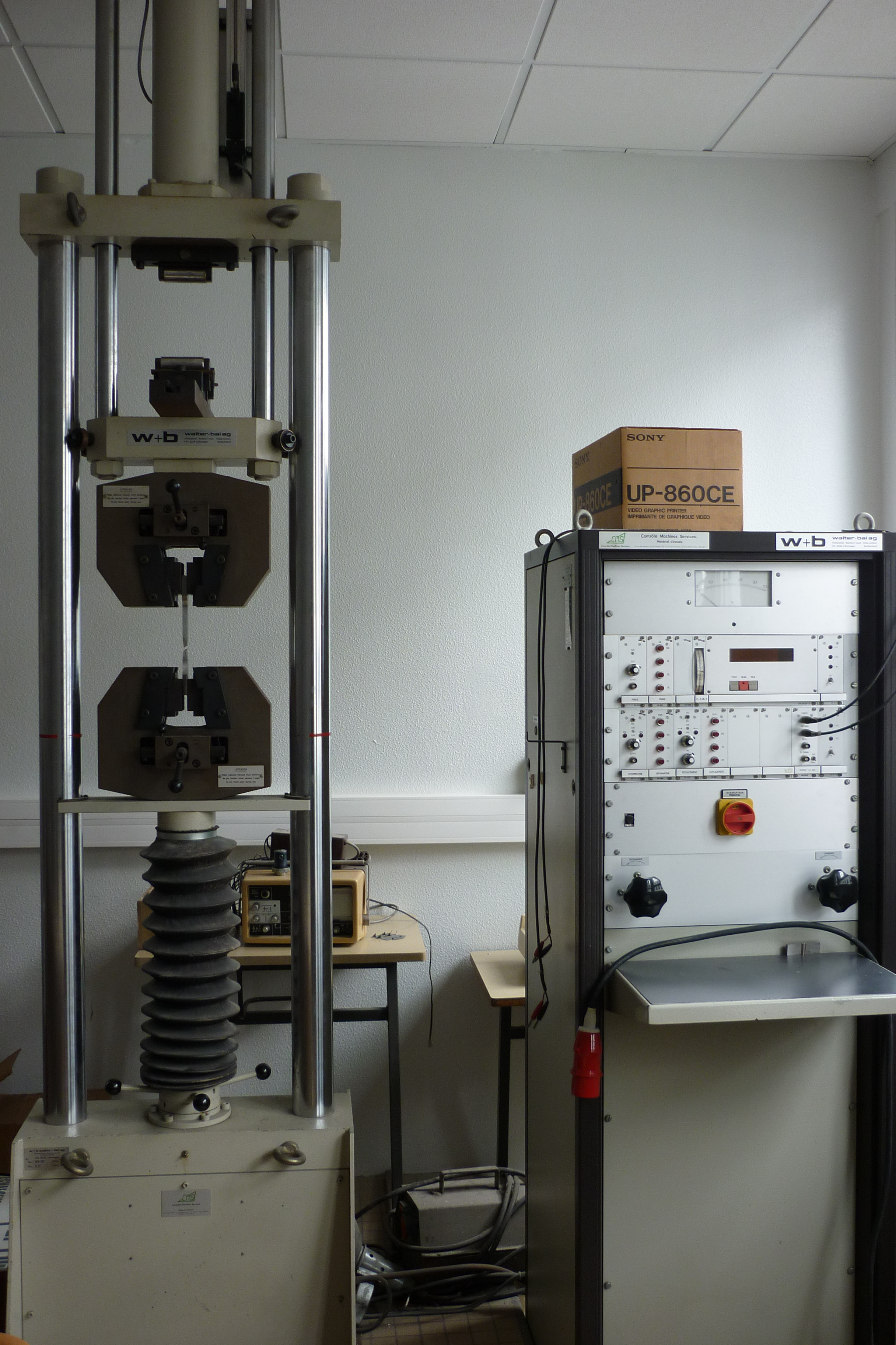 Walter+Bai tensile testing machine.